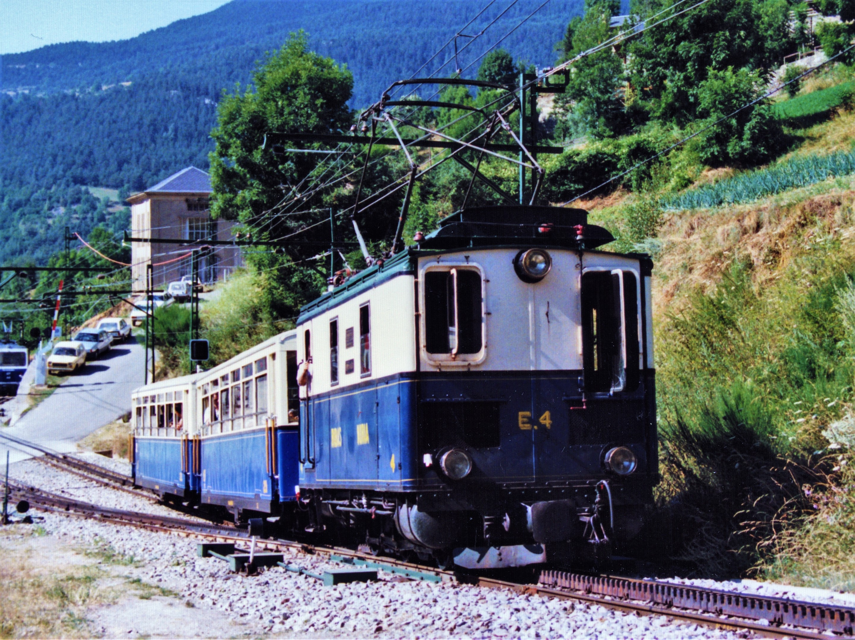 The E4 locomotive of the Nuria rack-railway, of Ferrocarrils de la Generalitat de Catalunya, leaves the Queralbs station towing two passenger cars, working a train from Ribes to Núria.